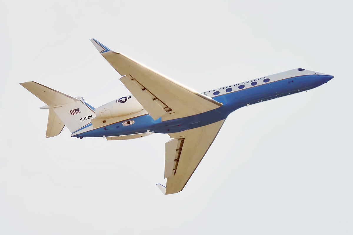 U.S. Air Force, 09-0525, Gulfstream Aerospace C-37B